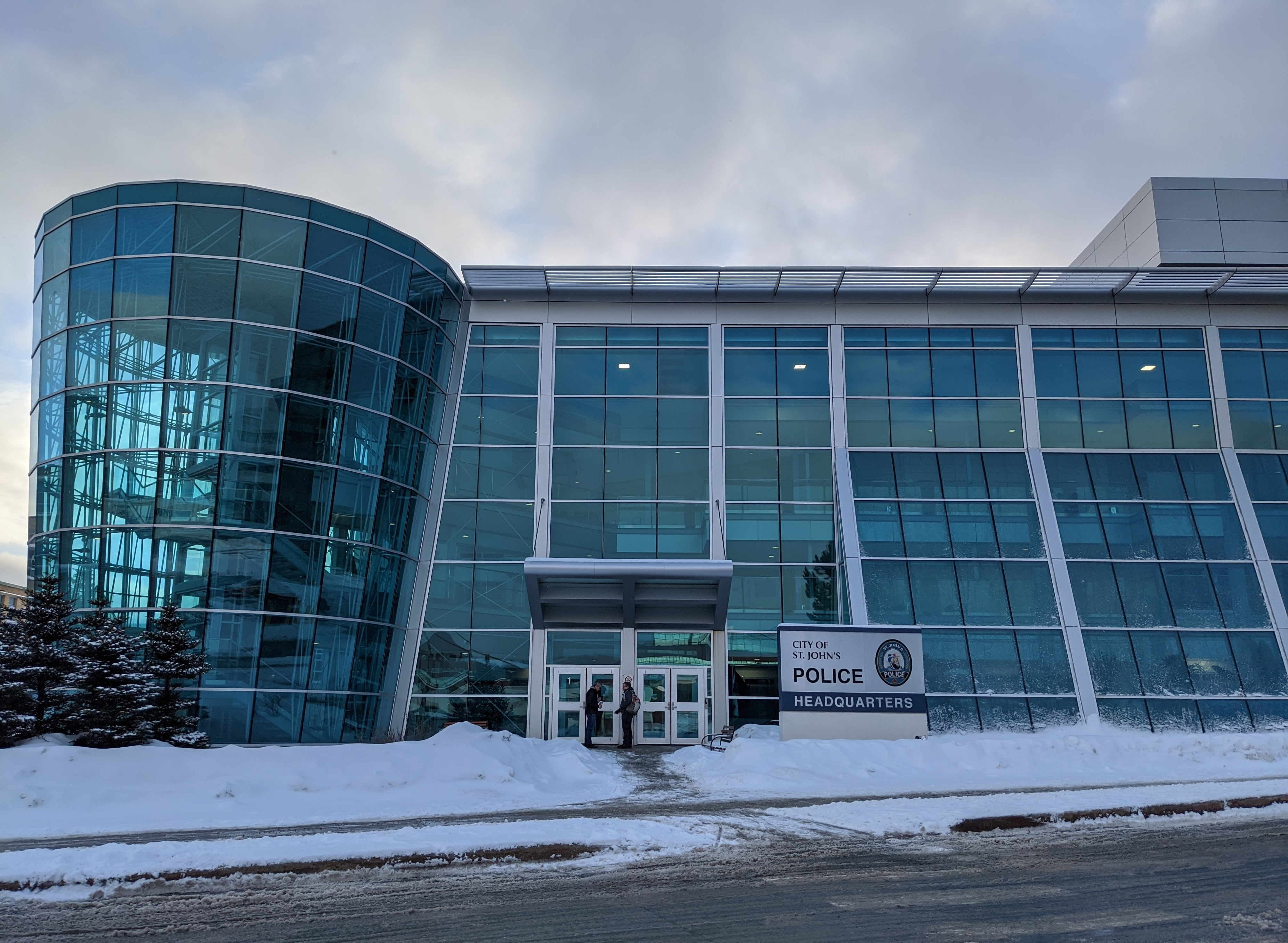 The Bruneau Centre at MUN on March 31st, 2019. Taken during filming of Rex and Hudson.